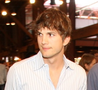 Ashton Kutcher, American actor